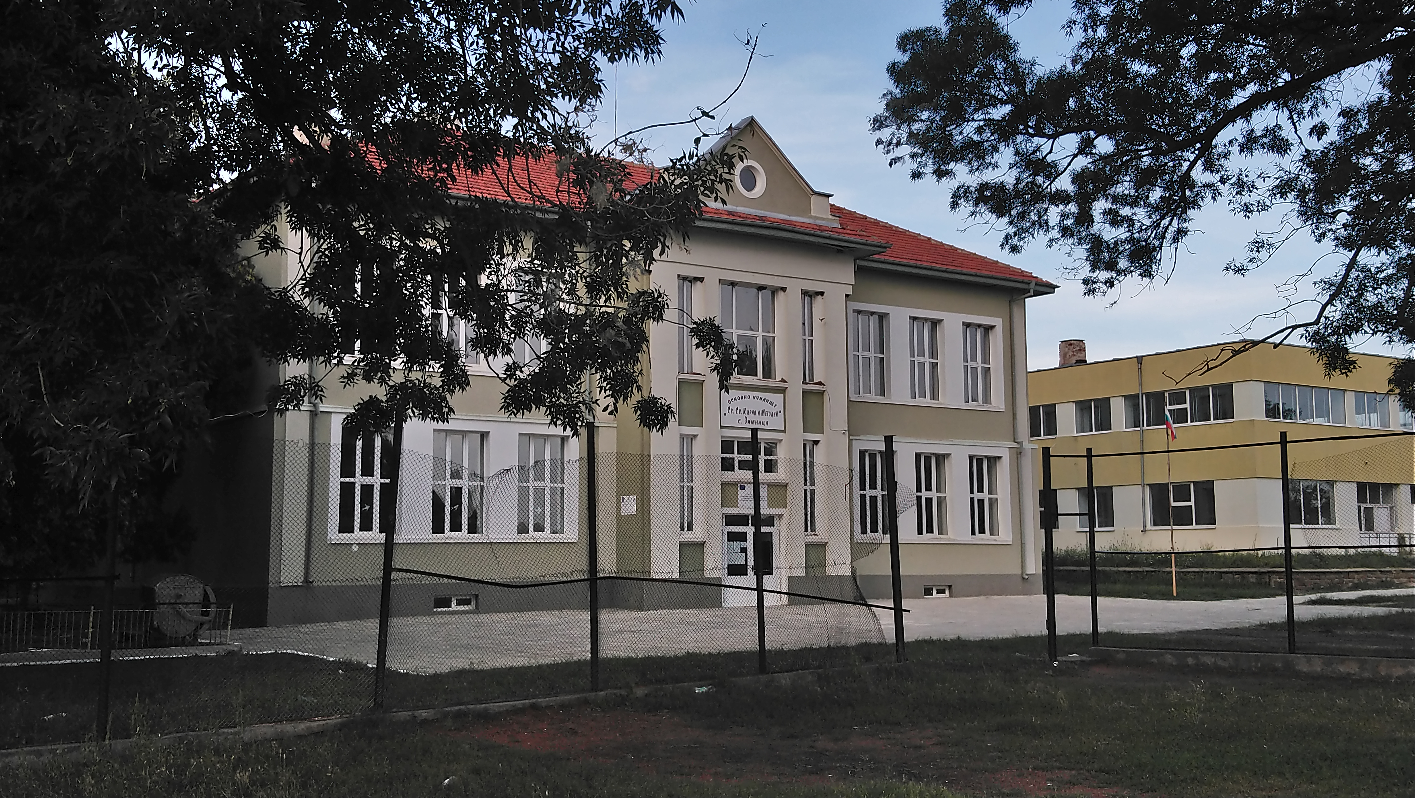 Zimnitsa (Yambol District): Elementary school "Saint Cyril and Methodius"